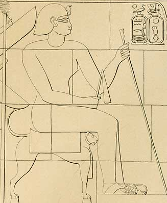 Drawing (closeup) of a Meroitic relief depicting king Khnemibre Arakamani (also known as Ergamenes I). From Meroe, Begarawiyah, pyramid S. 6 (early 3rd century BCE).